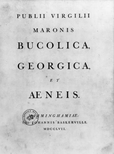 A book of Virgil's poetry printed and published by John Baskerville.